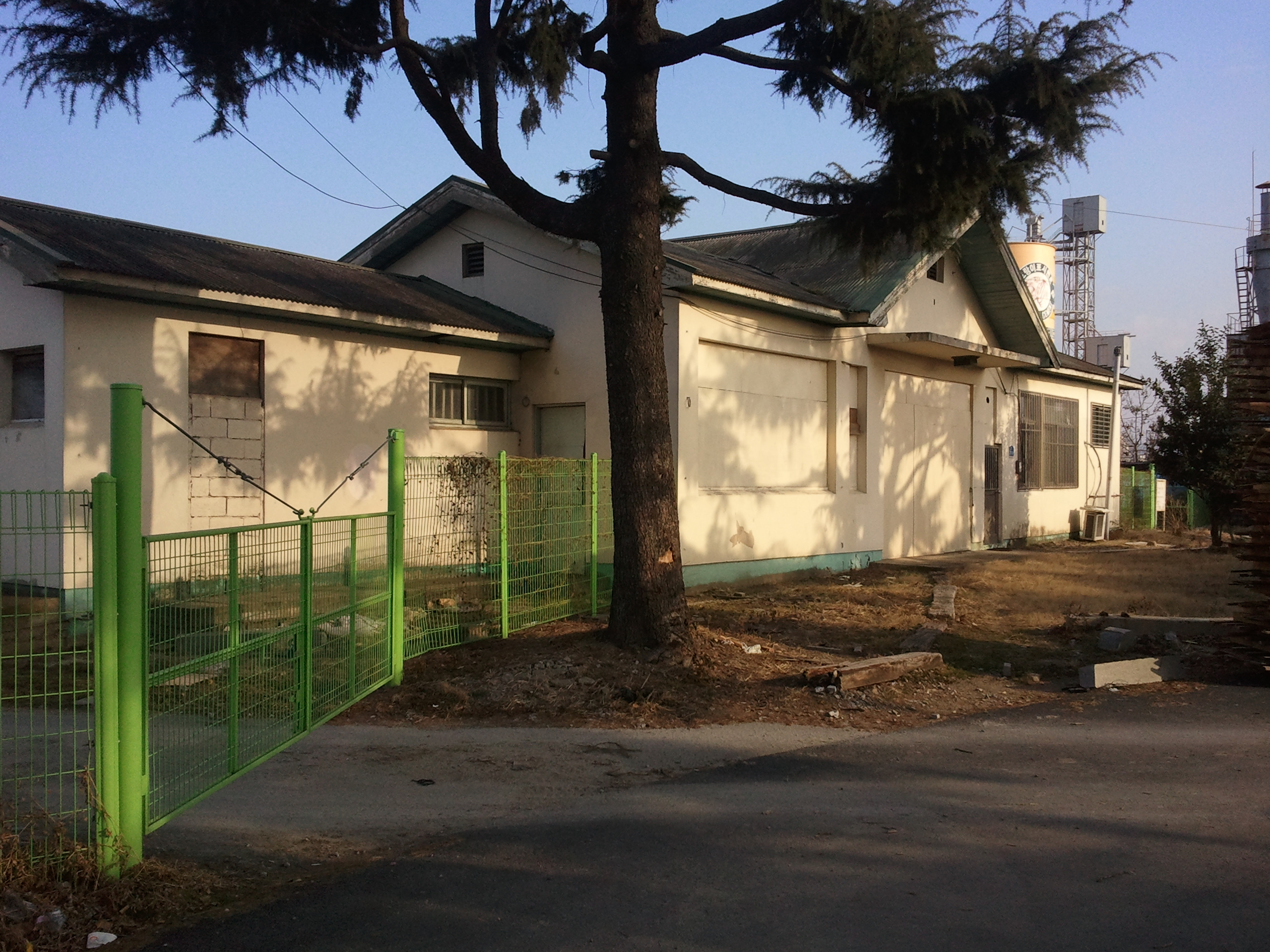 Bukjeonju station (on Bukjeonju line), Jeonju, Jeollabuk-do, South Korea.